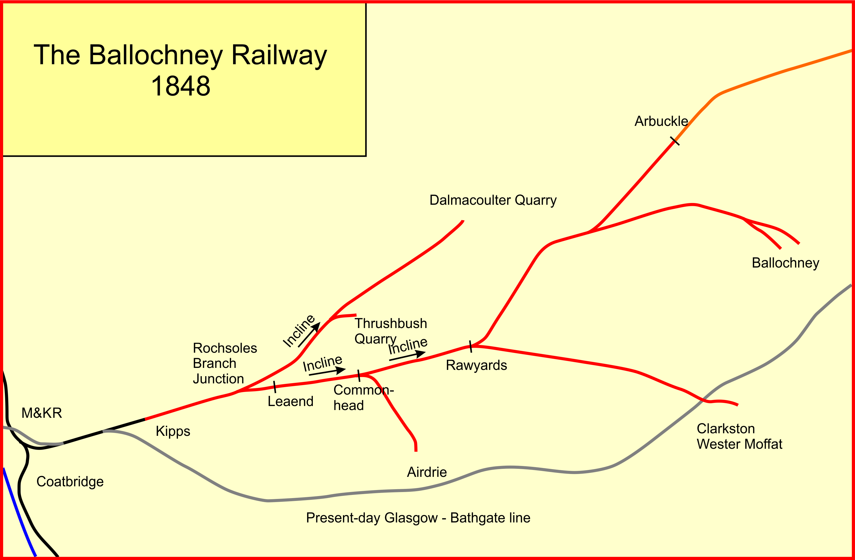 System map of Ballochney Railway in 1848, when it was merged with others to form the Monkland Railway